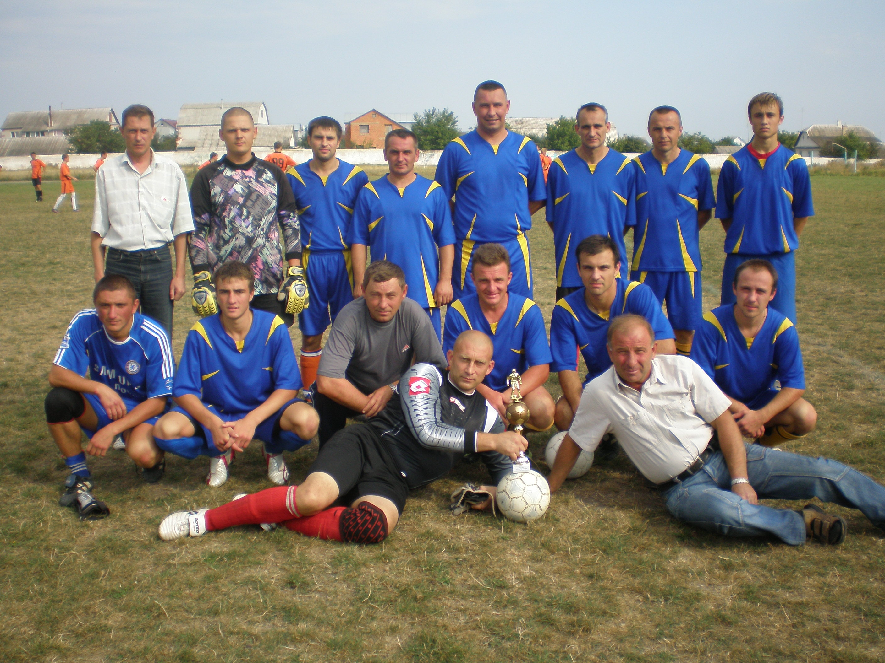 Фото 2009. Віце чемпіони Колоса